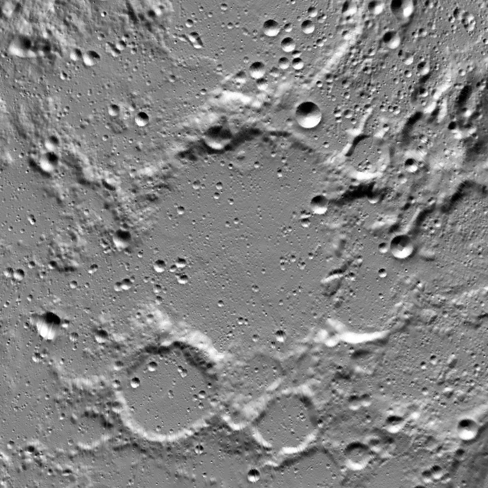 Crater Byrd (diam. 97 km) on the Moon, near the North pole. Smaller crater Gioja borders it at lower left and eroded crater Florey — at upper left. The image is centered at 85°N, 10°E. The image is build from data by Lunar Orbiter Laser Altimeter (LOLA) aboard the Lunar Reconnaissance Orbiter. Width of the image is 200 km; north is up.